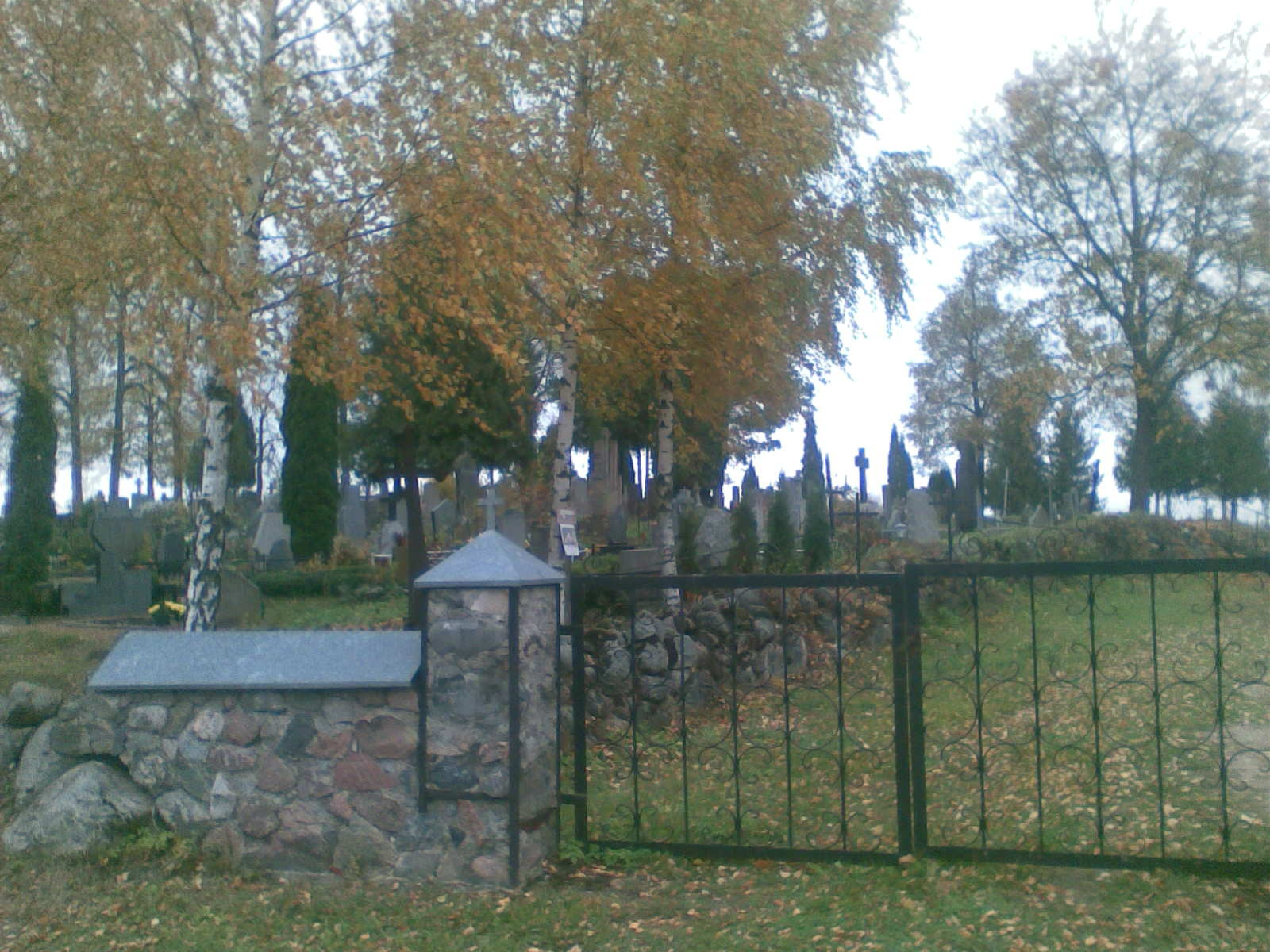 Šešuoliai cemetery.